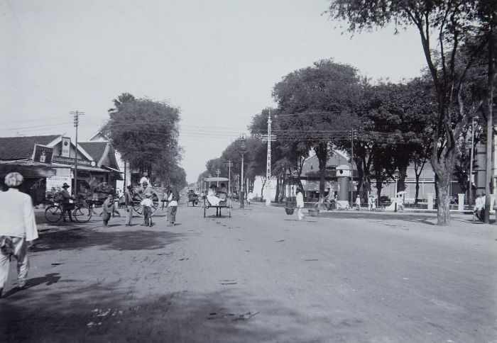 Bojong street